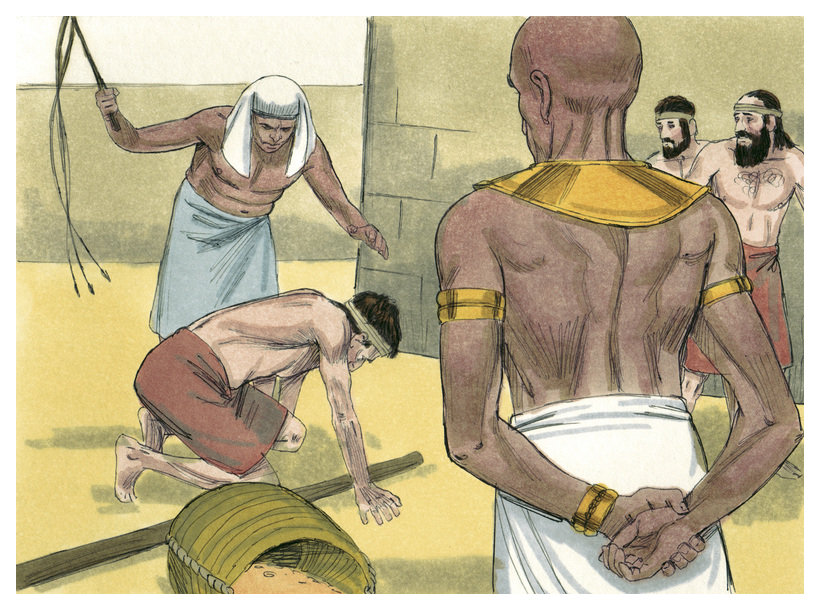 Biblical illustration of Book of Exodus Chapter 2